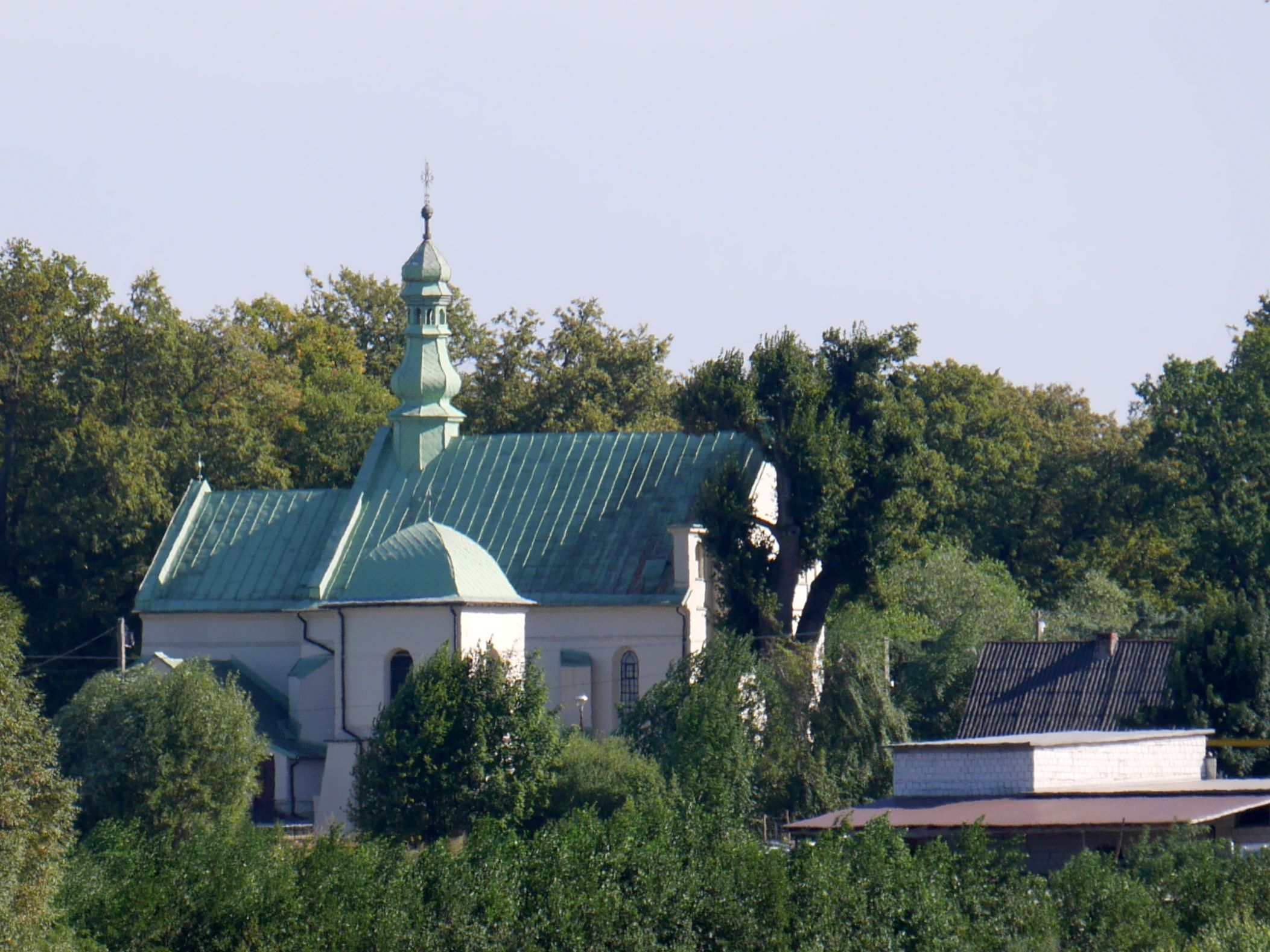 Saint Lawrence church in Drugnia